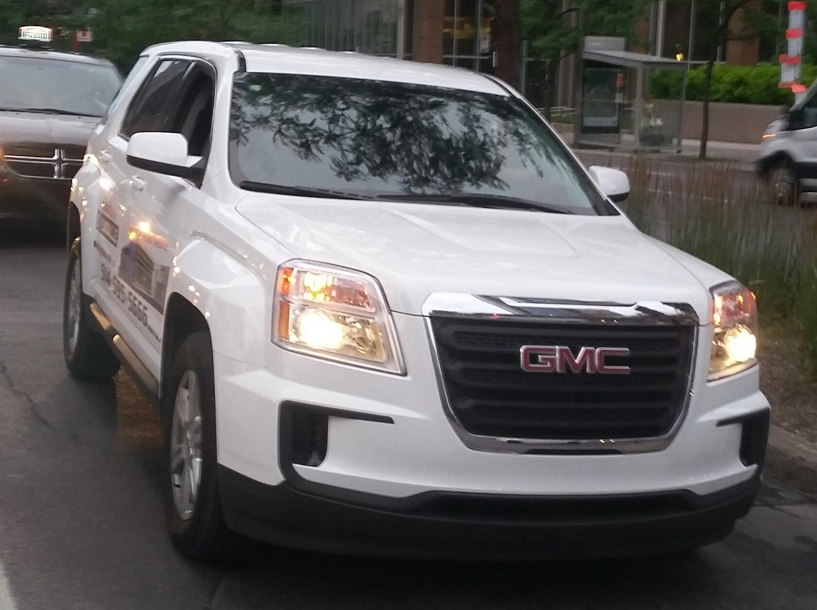 2016 GMC Terrain photographed in Montreal, Quebec, Canada.